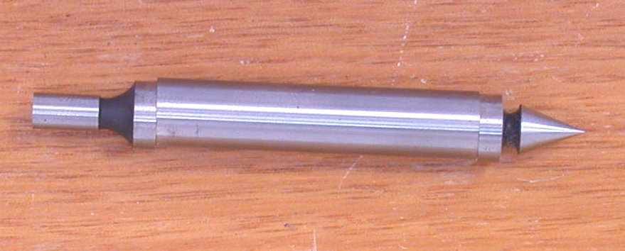 Photograph taken by Glenn McKechnie on the 24th March 2005.